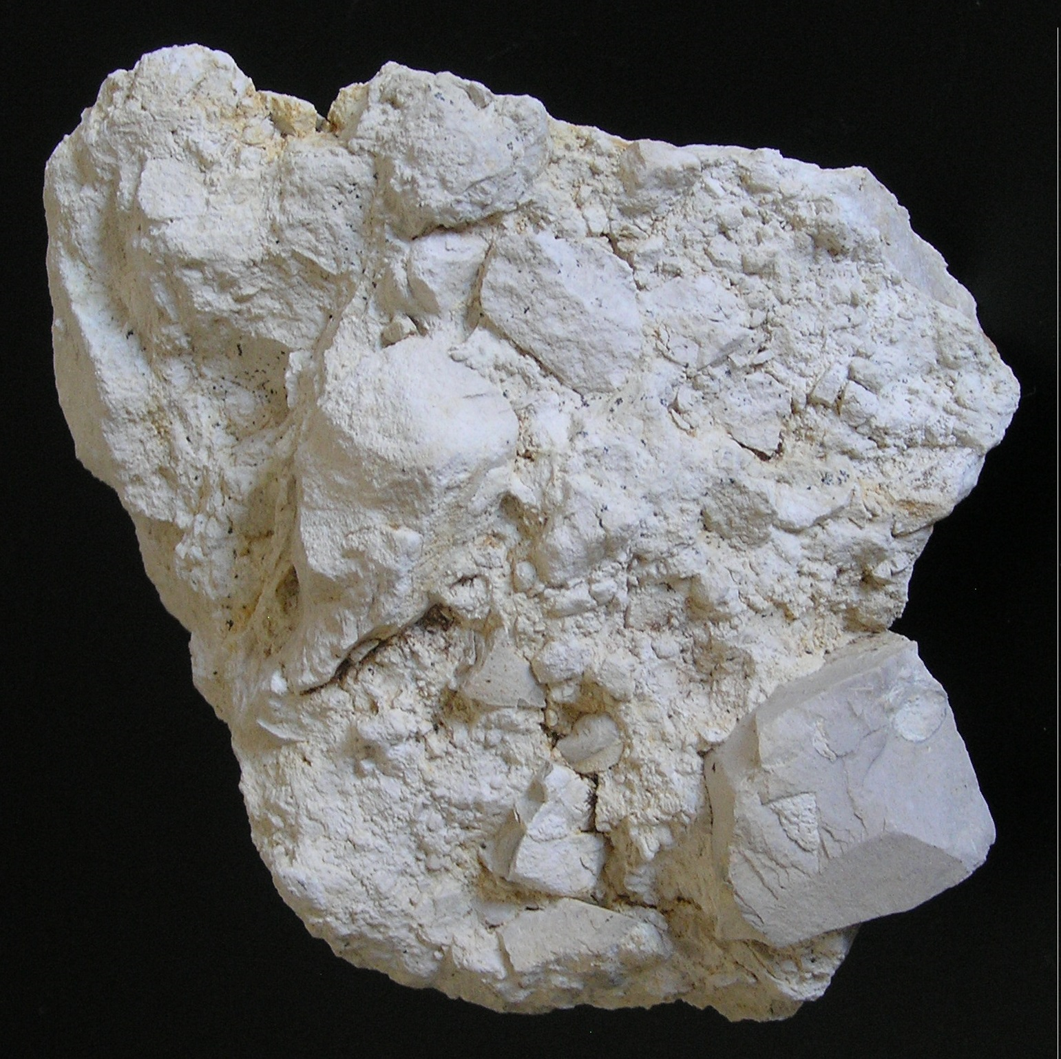 Breccia from Steinheim Impact crater